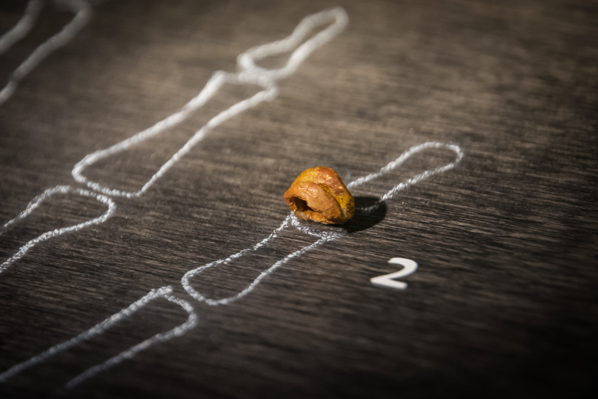 Replica of a Denisovan finger bone fragment, originally found in Denisova Cave in 2008, at the Museum of Natural Sciences in Brussels, Belgium.